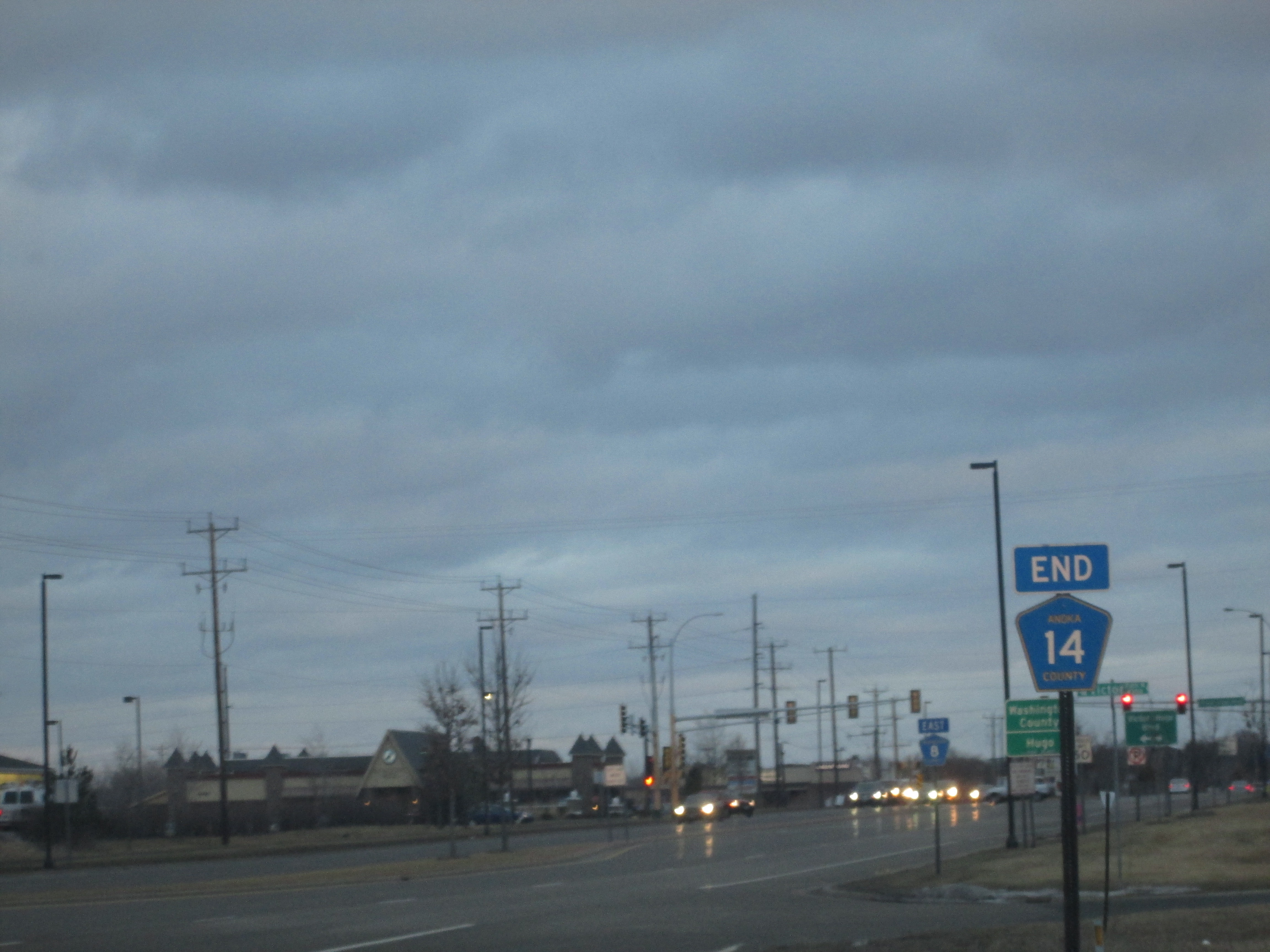 The eastern end of Anoka CSAH 14 at the border between Lino Lakes and Hugo, Minnesota.